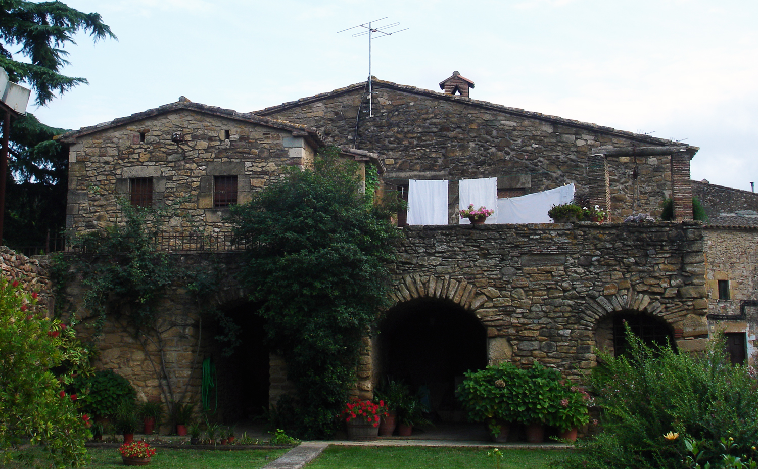 Masia: Catalan architecture